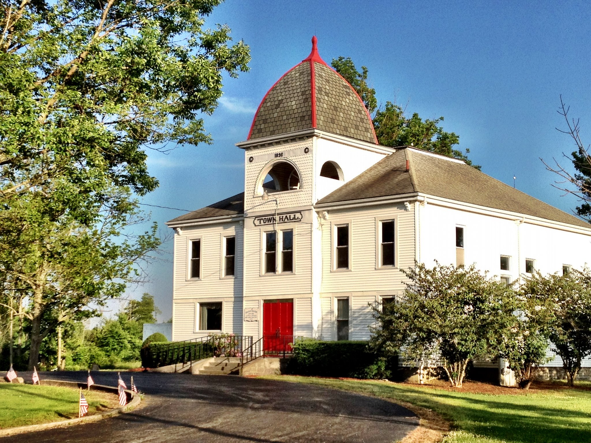 Gustavus Center Historic District